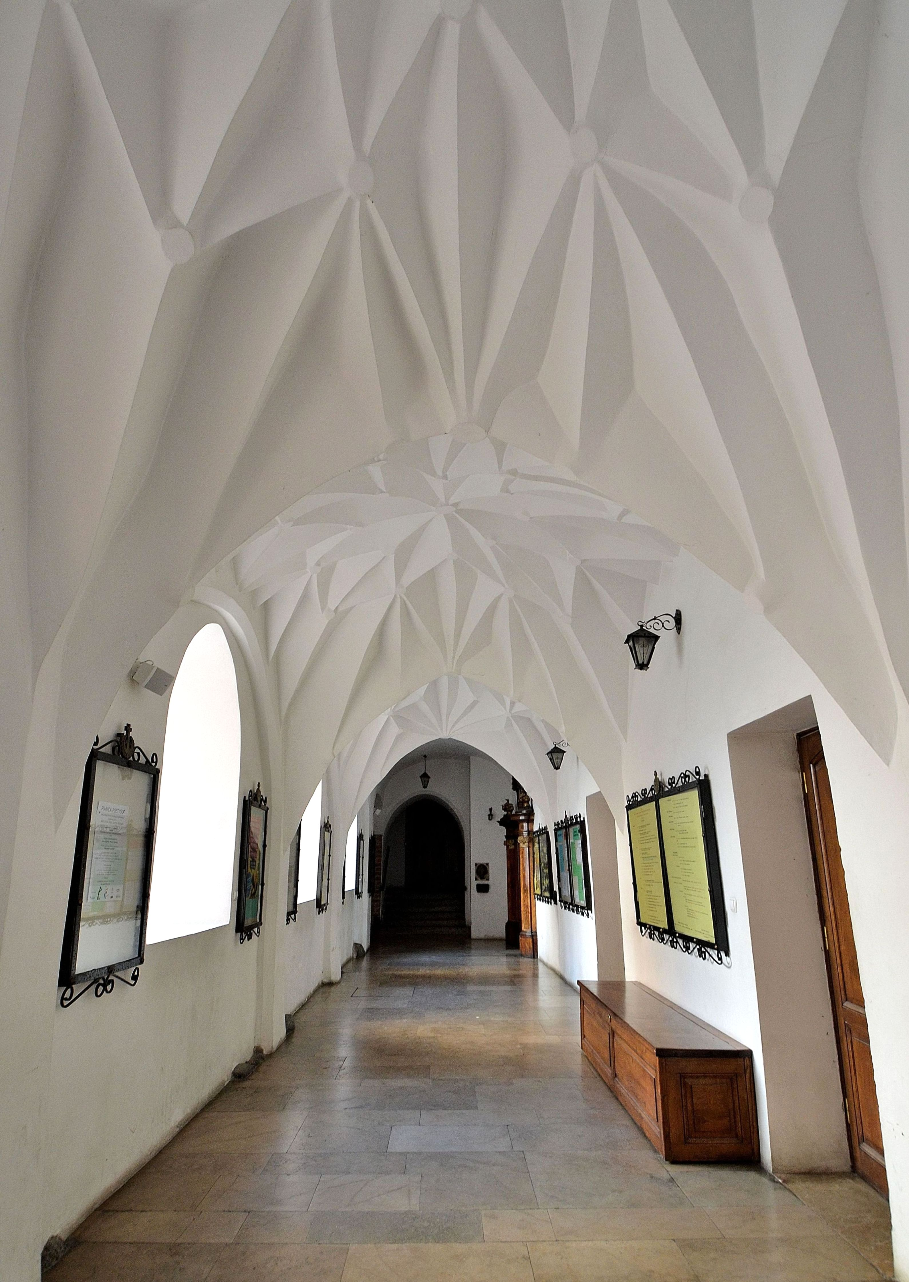 A diamond vault (1514) in the cloister of the former Bernardine monastery in Warsaw (listed in the Register of Historic Monuments on 1.07.1965, reference no. 253/1)